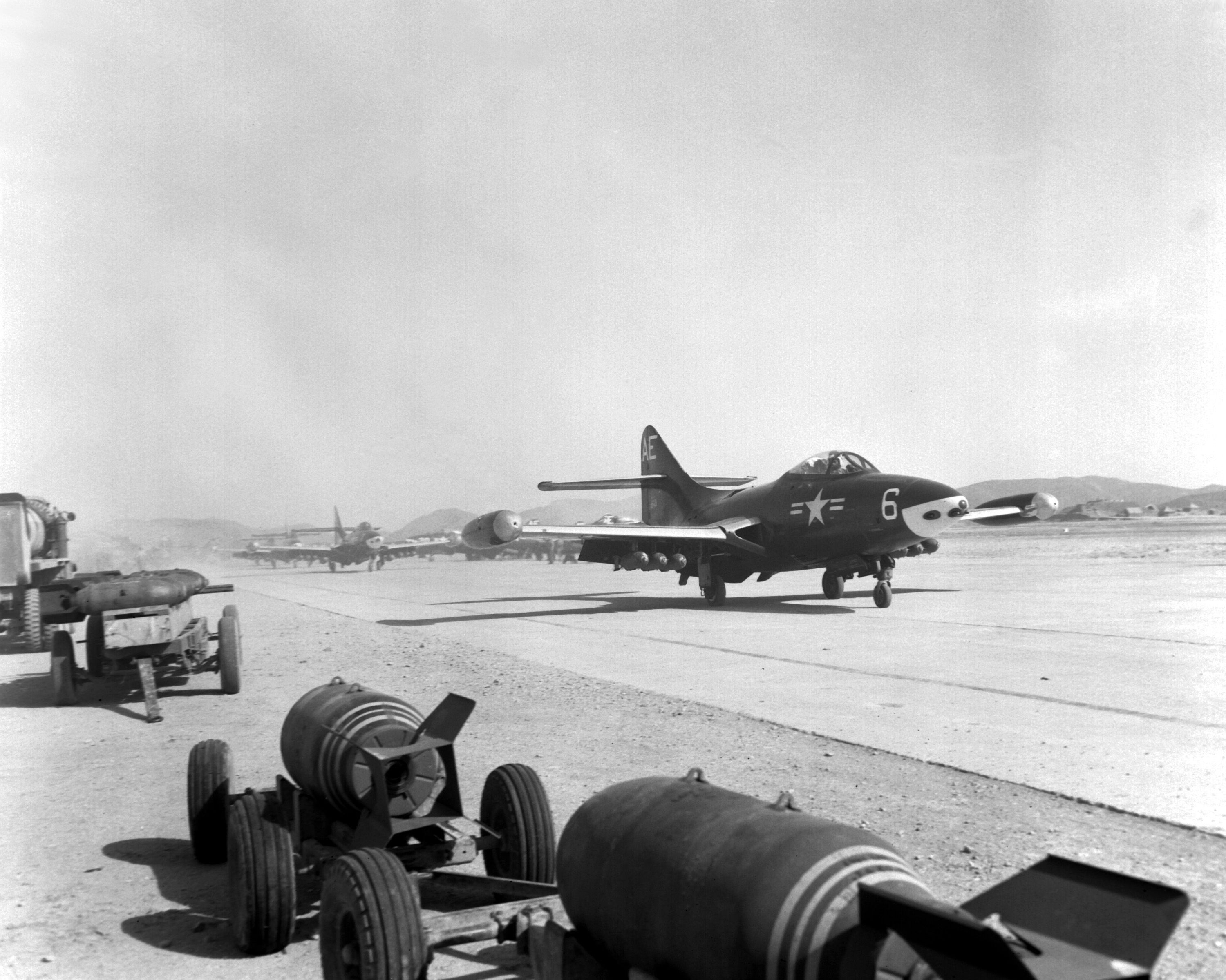 Armed U.S. Marine Corps Grumman F9F-2 Panther fighters of Marine Major James "Buzz" Sawyer's squadron VMF-115 Able Eagles taxi down the runway at Pohang, Korea, on 15 March 1953.